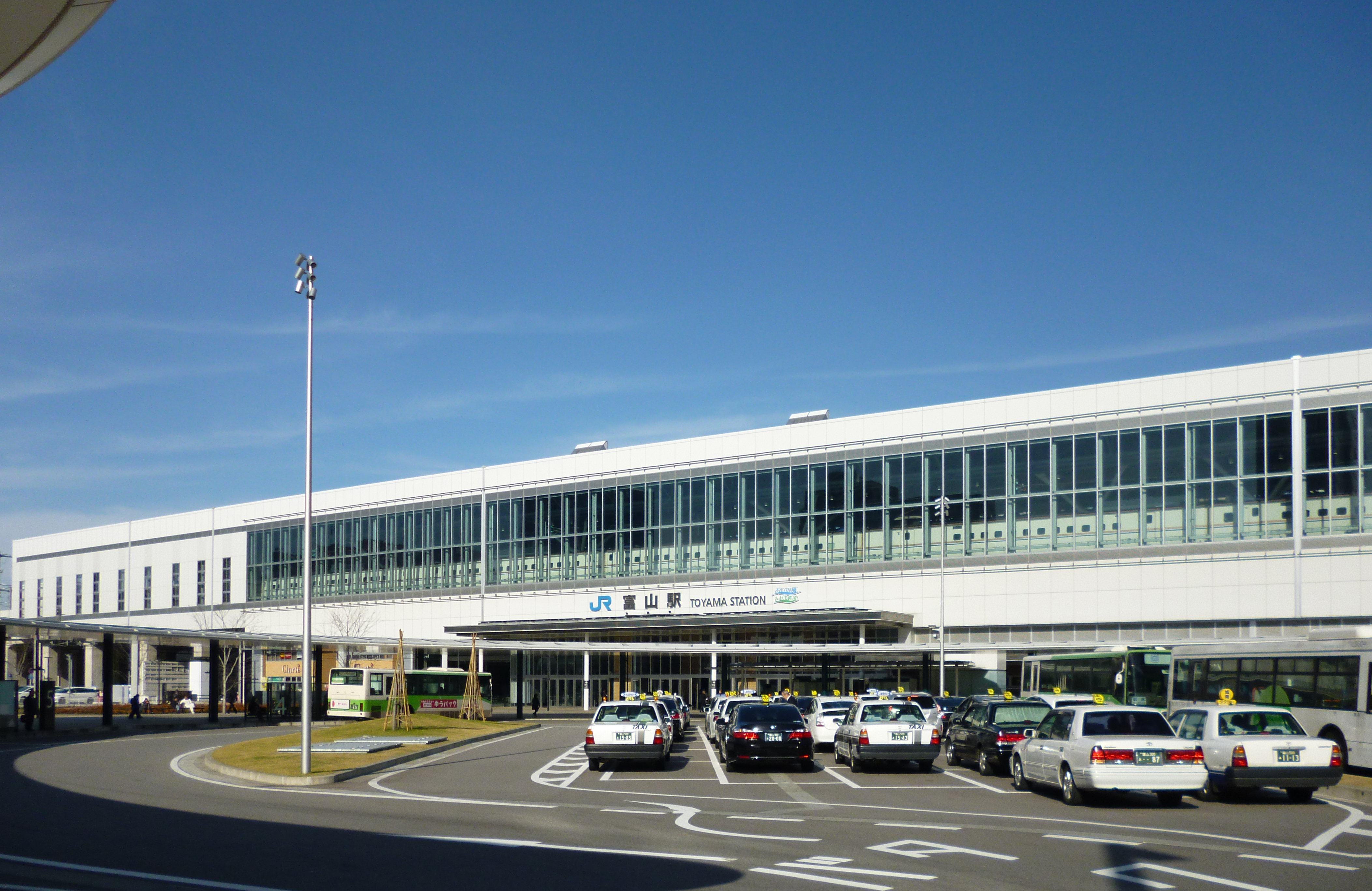 The south entrance and forecourt of Toyama Station in Toyama, Toyama, Japan